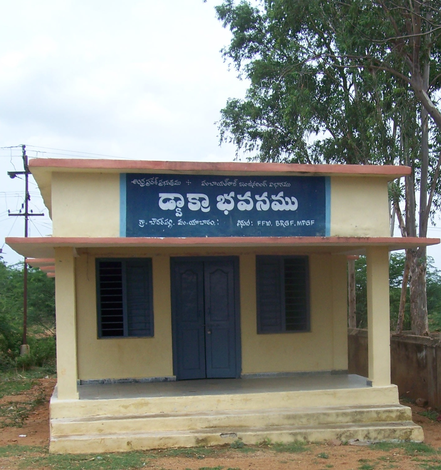 Dwakra bhavan